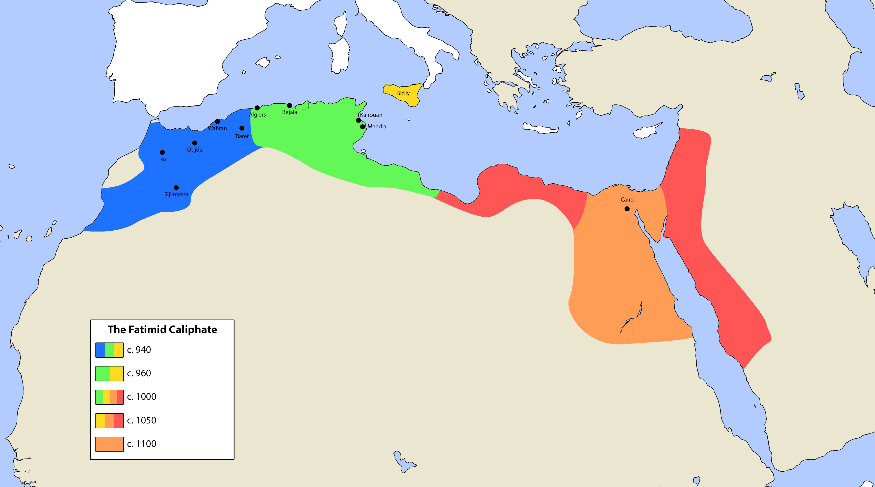 Map the Fatimid Empire (chronological) Map drawn acc. to: The Encyclopaedia of Islam, New Edition, Volume II: C–G. Leiden: E. J. Brill. pp. 850–862 ( Fatimids captured Tangiers, Seubta and Mellila : 1. Ibn KHaldun: "The Fatimid army then went to the edge of the Atlantic Ocean, subduing all the countries it crossed. 2. Ibn al Athir: "This one, continuing his march, reached the Atlantic Ocean 3. Mercier: "He led his army westward and advanced as far as the ocean, subduing the Saharan populations in his path. 4. C.A.Julien: "He then seized Fez and subdued the whole country as far as Tangier and Ceuta. 5. Meynier: "his army [...] reoccupies the Maghreb al Aqça 6. Sénac and Cressier "While Djawhar subdued various tribes in northern Morocco, Zîrî b. Manâd maintained the siege of the capital until the submission of Abû Bakr. 7. Cosmovisions: "occupied all of Morocco as far as the Atlantic Ocean, with the exception of Tangier and Ceuta. 8. The Larousse encyclopedia: "al-Muizz Li-Din-Allah, [...] assures its authority over the entire Maghreb. 9. The site of the Tunisian Ministry of Defense: "The victories of Jawhar allowed al-Mu'izz to reign over an empire stretching from the Atlantic Ocean to the Red Sea.